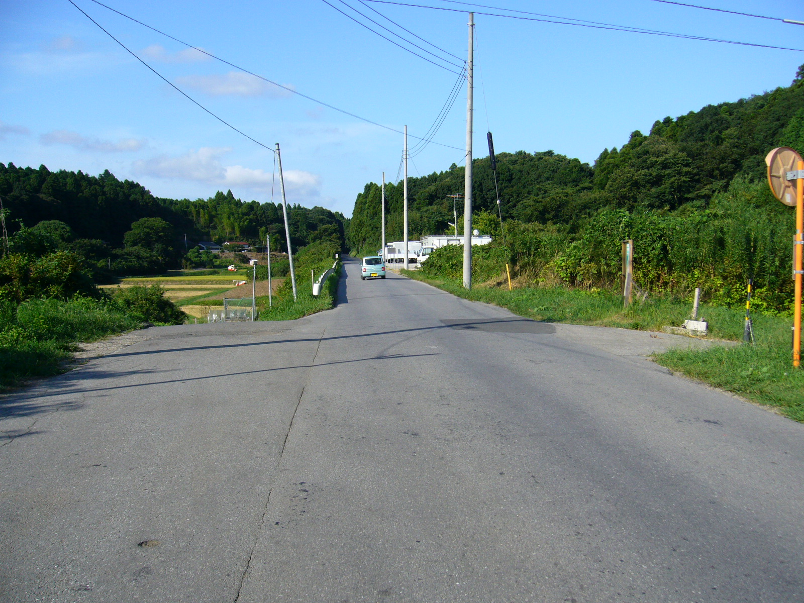 old-narita-railway,tako-line,shibayama-town,japan 成田鉄道多古線